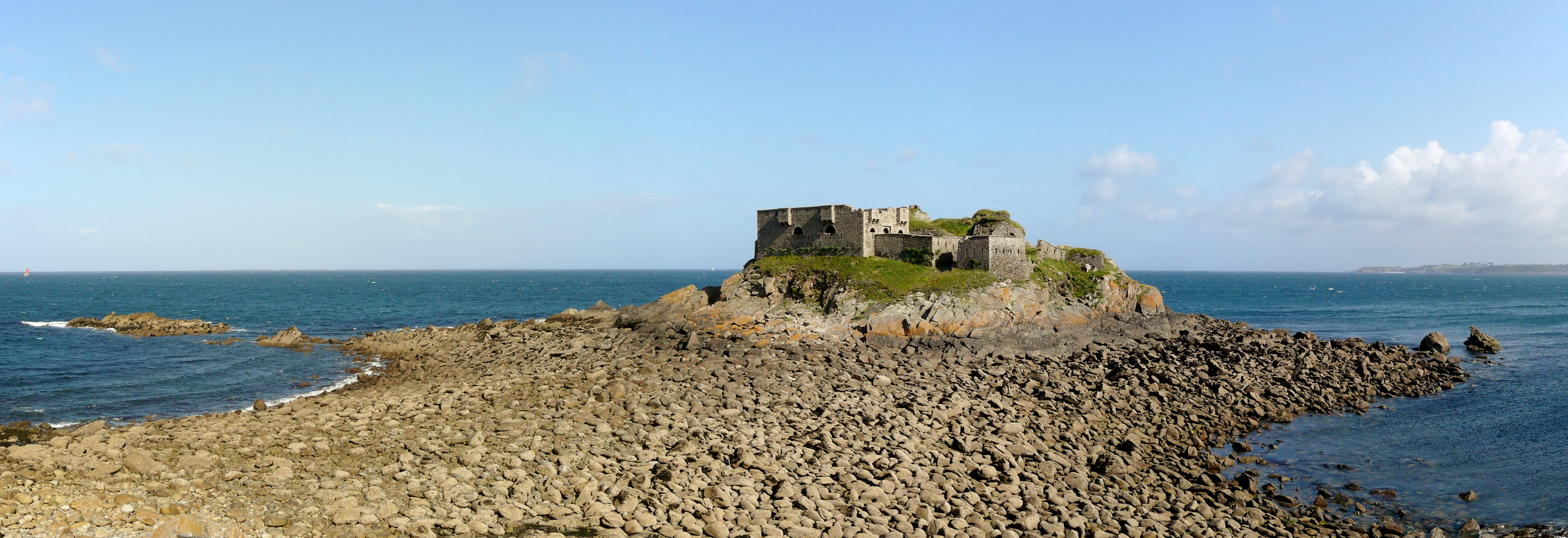 Fortress of the Îlette of Kermovan, in municiplaity of Le Conquet (Finistère, Britanny, west of France).